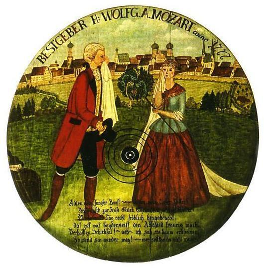 A target used in the informal sport of Bölzlschießen, played by Leopold Mozart and his family. The target depicts Wolfgang Amadeus Mozart bidding a fond farewell to his cousin Maria Anna Thekla Mozart, who may have been a love interest, as he departed Augsburg (clearly seen in the background) after a two week visit in October 1777 on his Paris journey.